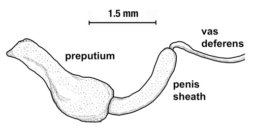 Drawing of reproductive system of Lymnaea meridensis from Laguna Mucubaji, Venezuela: preputium and penis sheath.